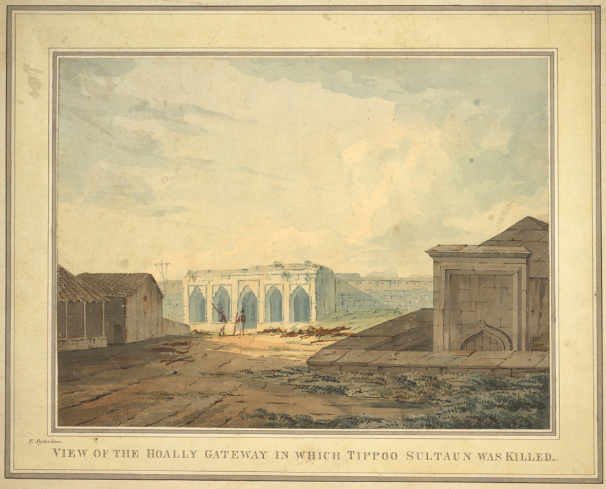 View of the Hoally Gateway, where Tipu Sultan_was killed, Seringapatam (Mysore). Watercolour of a view of Hoally Gateway in Seringapatam.